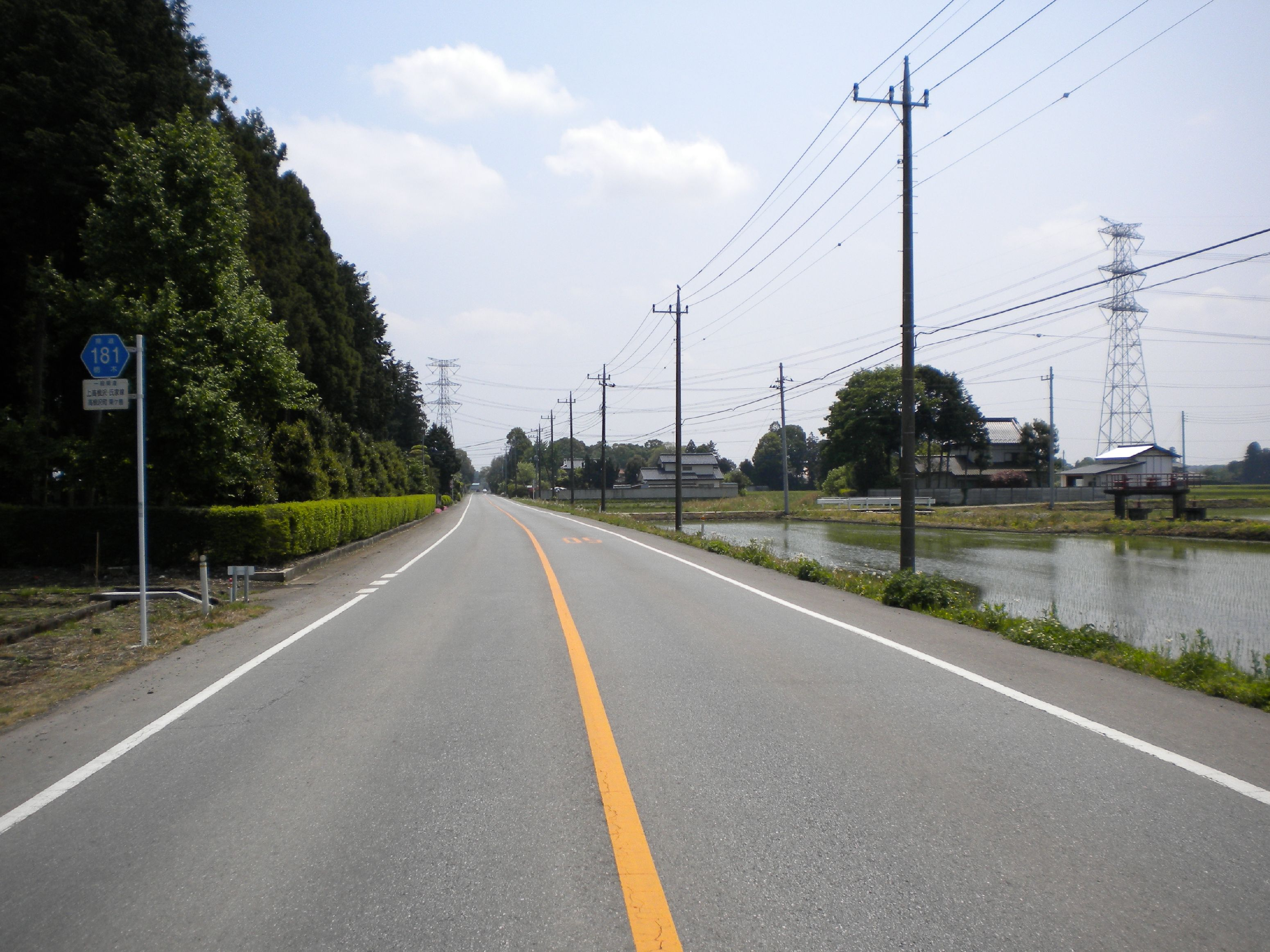 Tochigi prefectural road No.181 on Takanezawa town